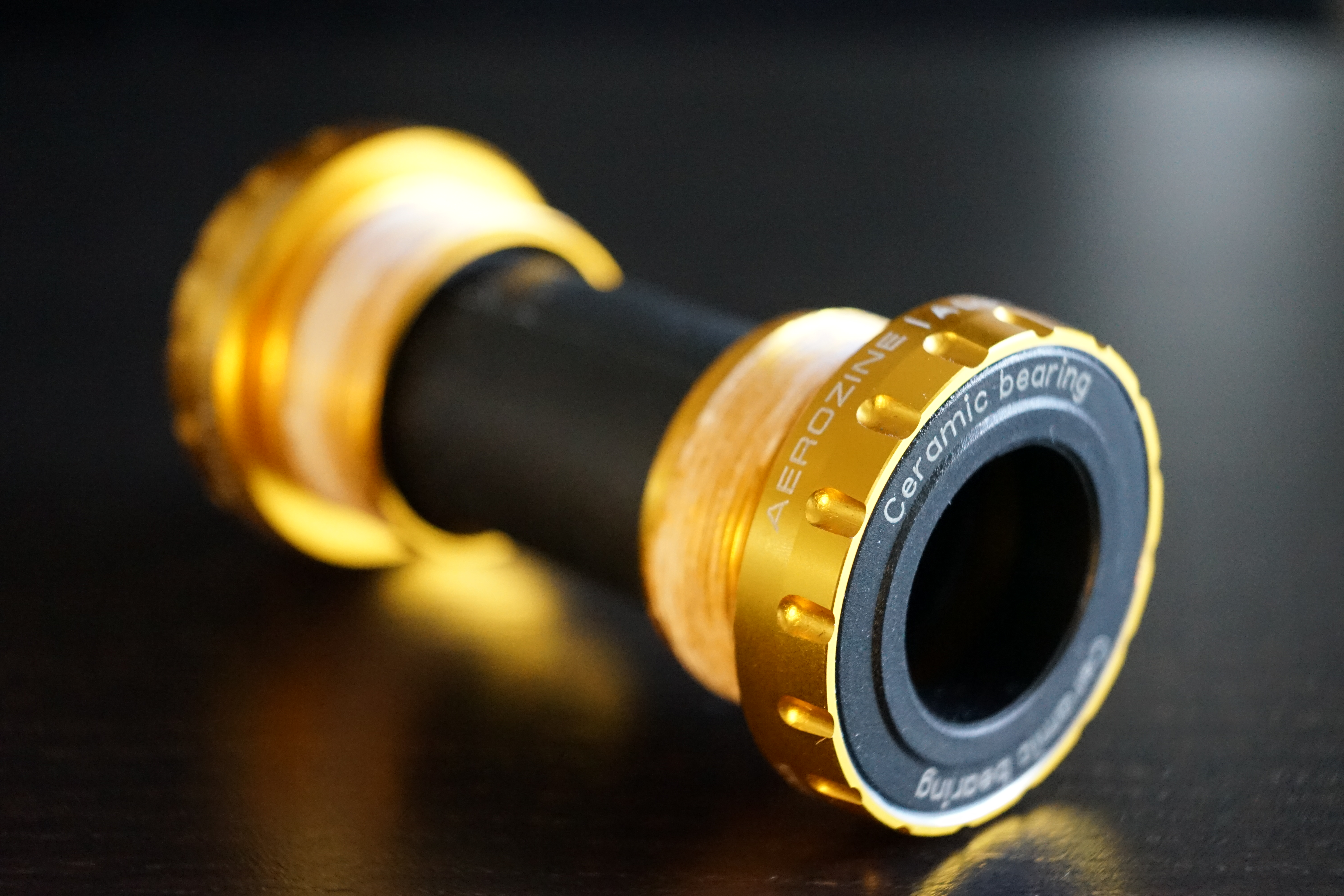 A bicycle bottom bracket with ceramic bearings Aerozine BB-08-XC-73/68, forged and CNC machined from aluminum, gold anodized.